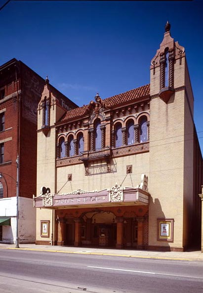 Russell Theater, 9 East Third Street, Maysville, Kentucky Mason County, KY Item Title: Russell Theater, 9 East Third Street, Maysville, Mason County, KY Medium: Photo(s): 1 Photo Caption(s): 2 Color Transparencies: 1